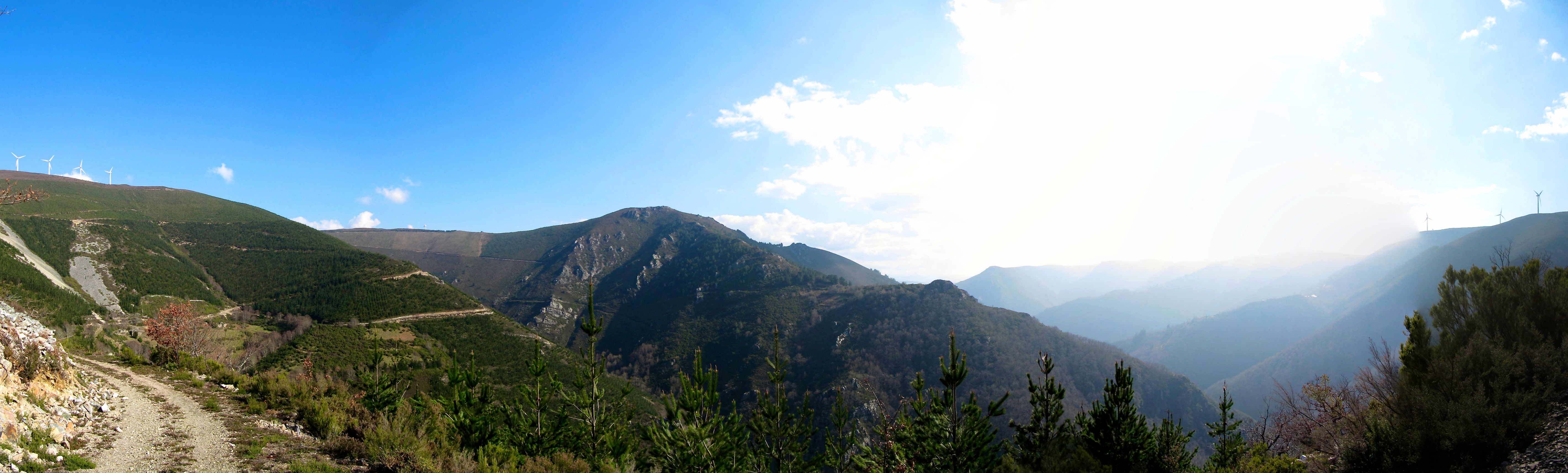 View of River Ahío Valley in Vilanova de Ozcos